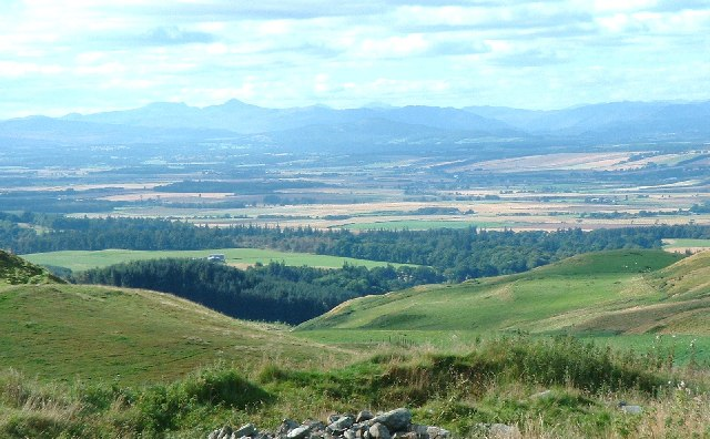 Westhall Hill (and Strathearn) Photo taken from western earthworks (foreground) of hill fort lying northeast of Culteuchar Hill. General view of Westhall Hill on right and looking west up Strathearn. Pointed summit of Ben Vorlich (Loch Earn)on the horizon.